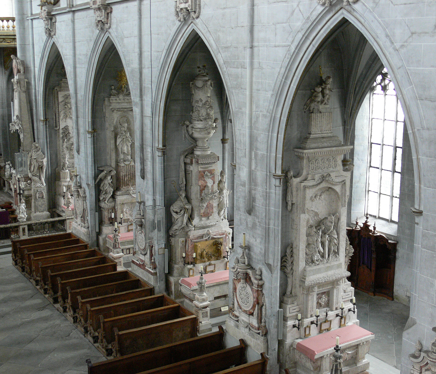 Description: Nebenaltäre rechts Source: User:Saberhagen Location: Salemer Münster, Salem (Baden), Germany Source: own photograph by uploader